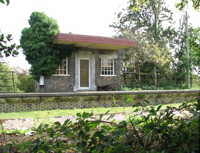 Haddiscoe High level railway station - the waiting room